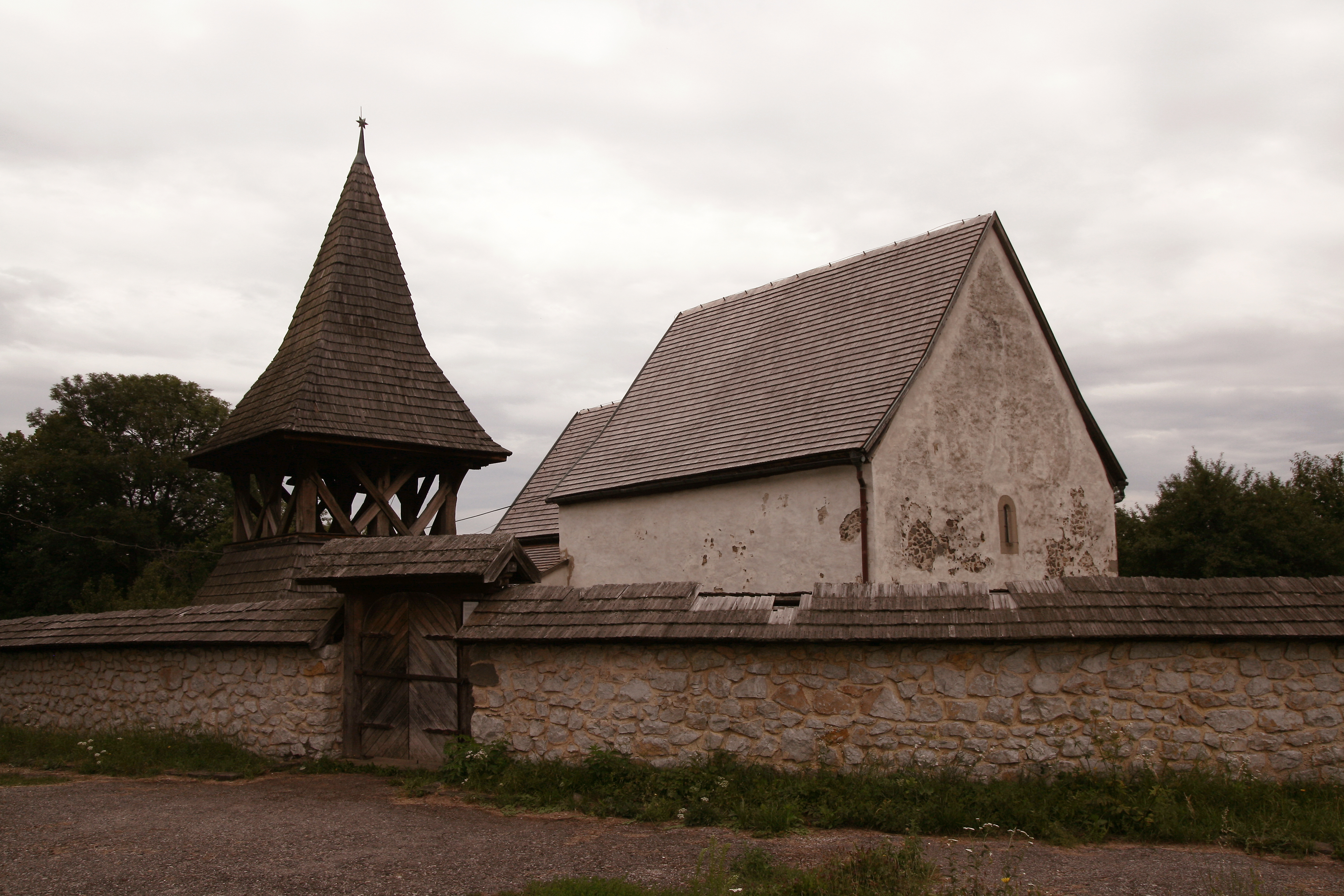 Gothic Evangelical church in Kraskovo, Slovakia